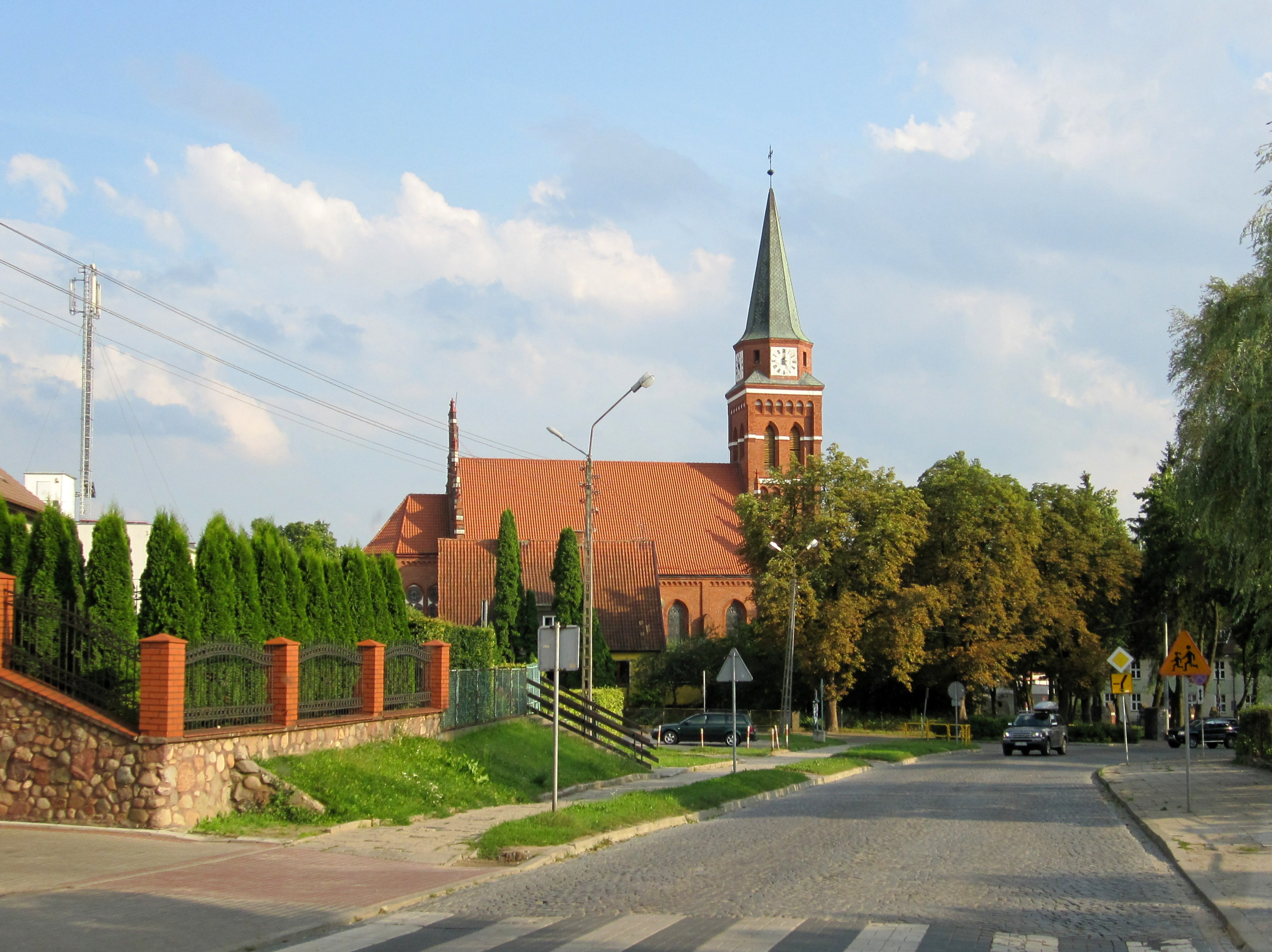 Church of the Assumption in Szczytno